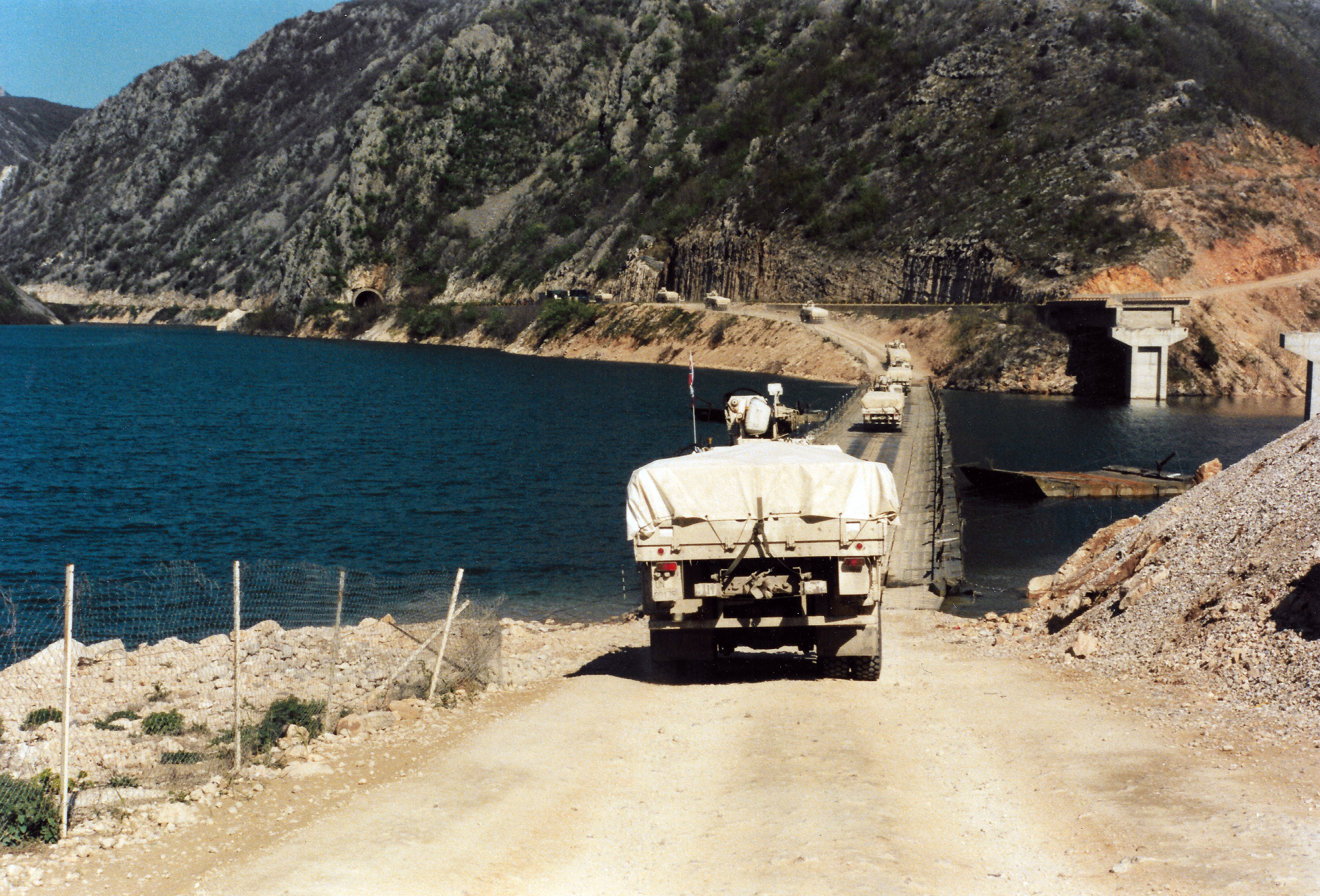 Dutch UN Transportbatallion crossing a Pontoon bridge over the river Neretva from the M17 towards the west with, Bosnia and Herzegovina